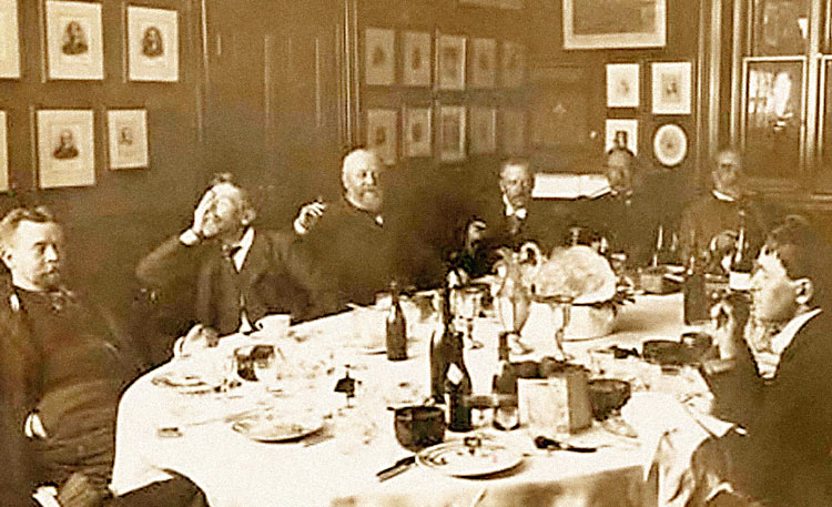 Editorial meeting of Punch magazine in the late 19th century. Those present include George du Maurier (second from the left), John Tenniel (fifth from the left) and Phil May (right foreground).